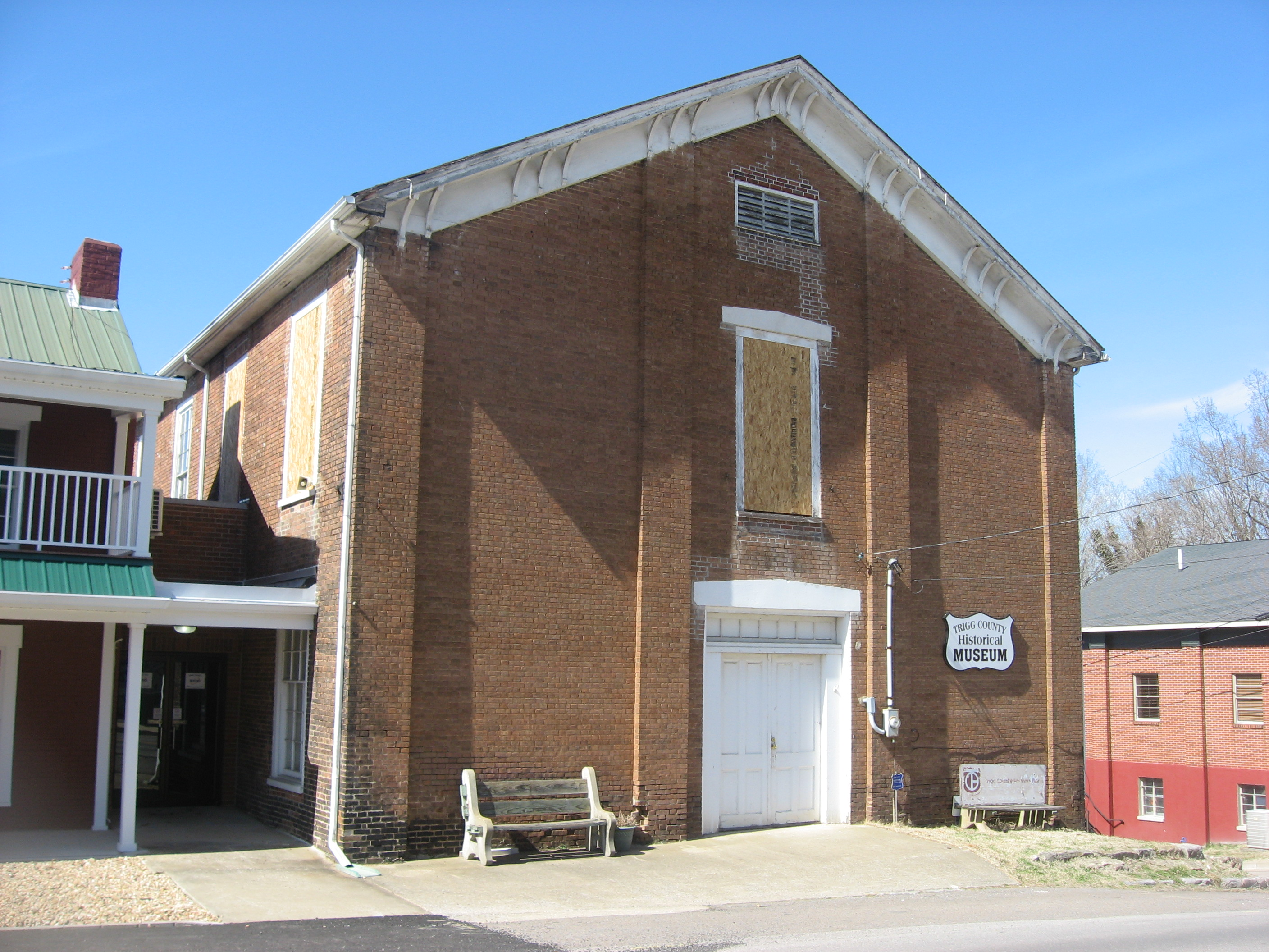 Western side and front of the Cadiz Masonic Lodge, located on the northwestern corner of the junction of Jefferson (Kentucky Route 139) and Monroe Streets in Cadiz, Kentucky, United States. Built in 1854, it is listed on the National Register of Historic Places.